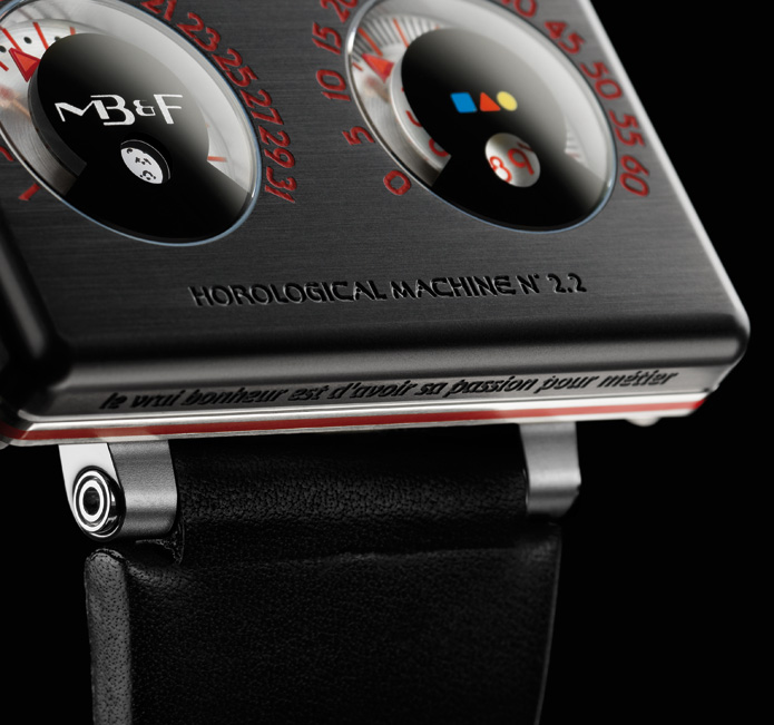 MB&F HM2.2 Black Box